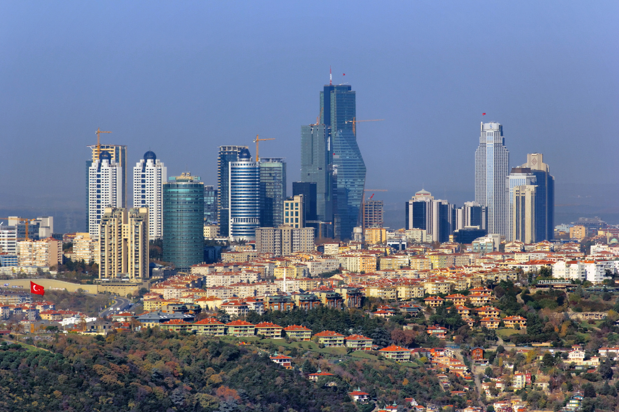 Levent Financial Center, Istanbul, Turkey